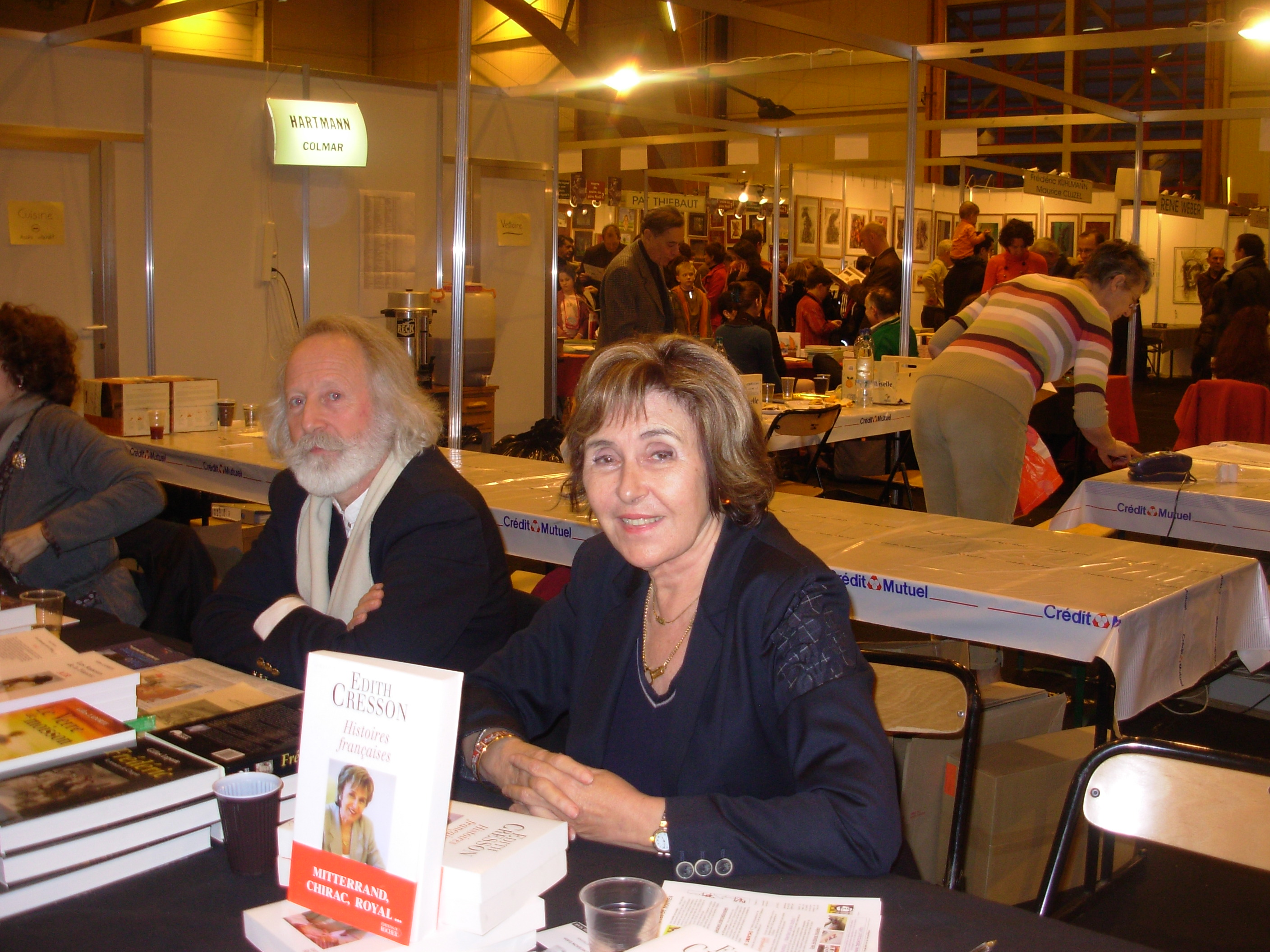 Édith Cresson, prime minister of France, at the Salon du Livre from Colmar